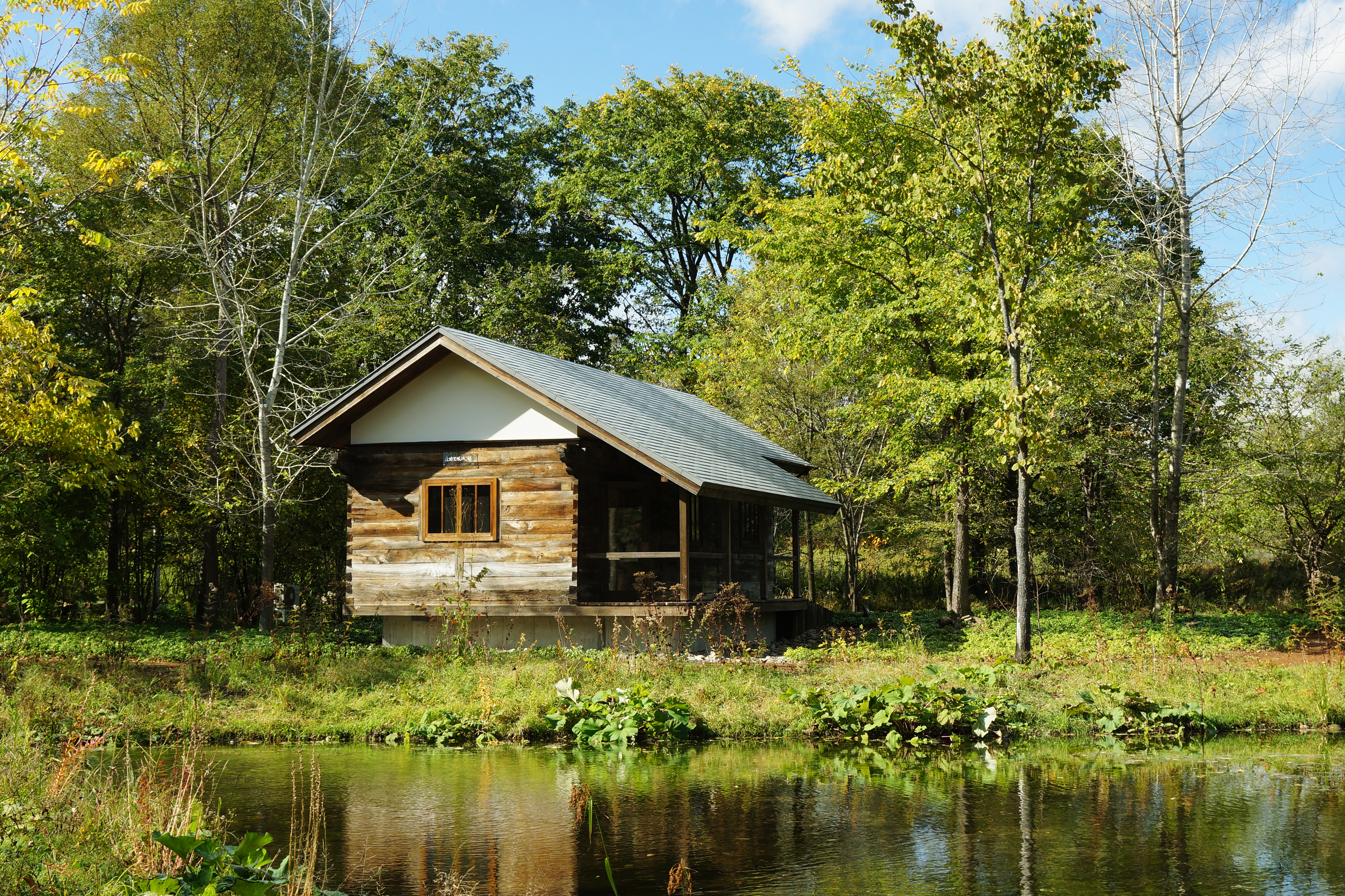 Rokka no Mori in Nakasatsunai, Hokkaido prefecture, Japan.